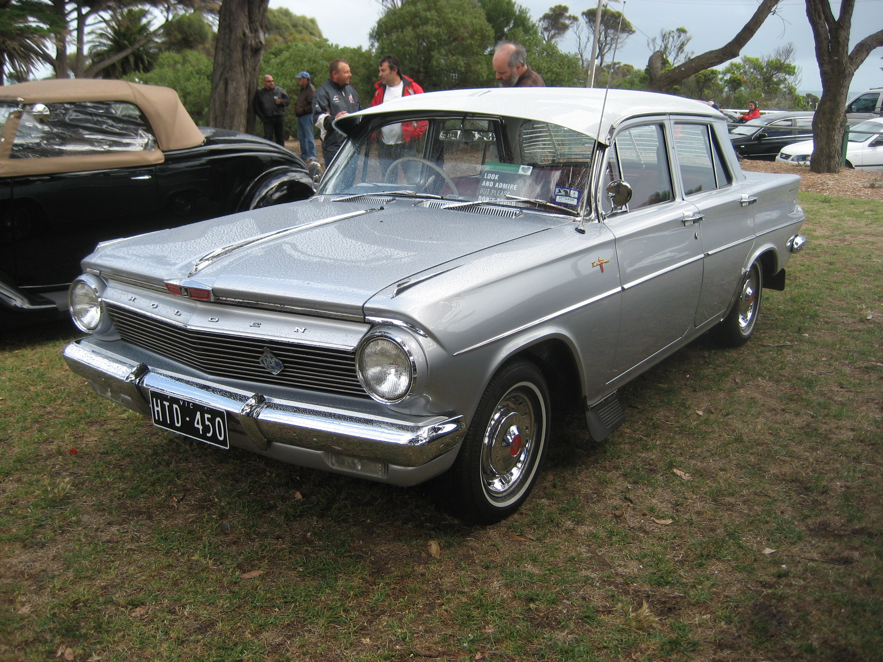 Built from July 1962-August 1963 Engine; 138 Grey 6 cyl